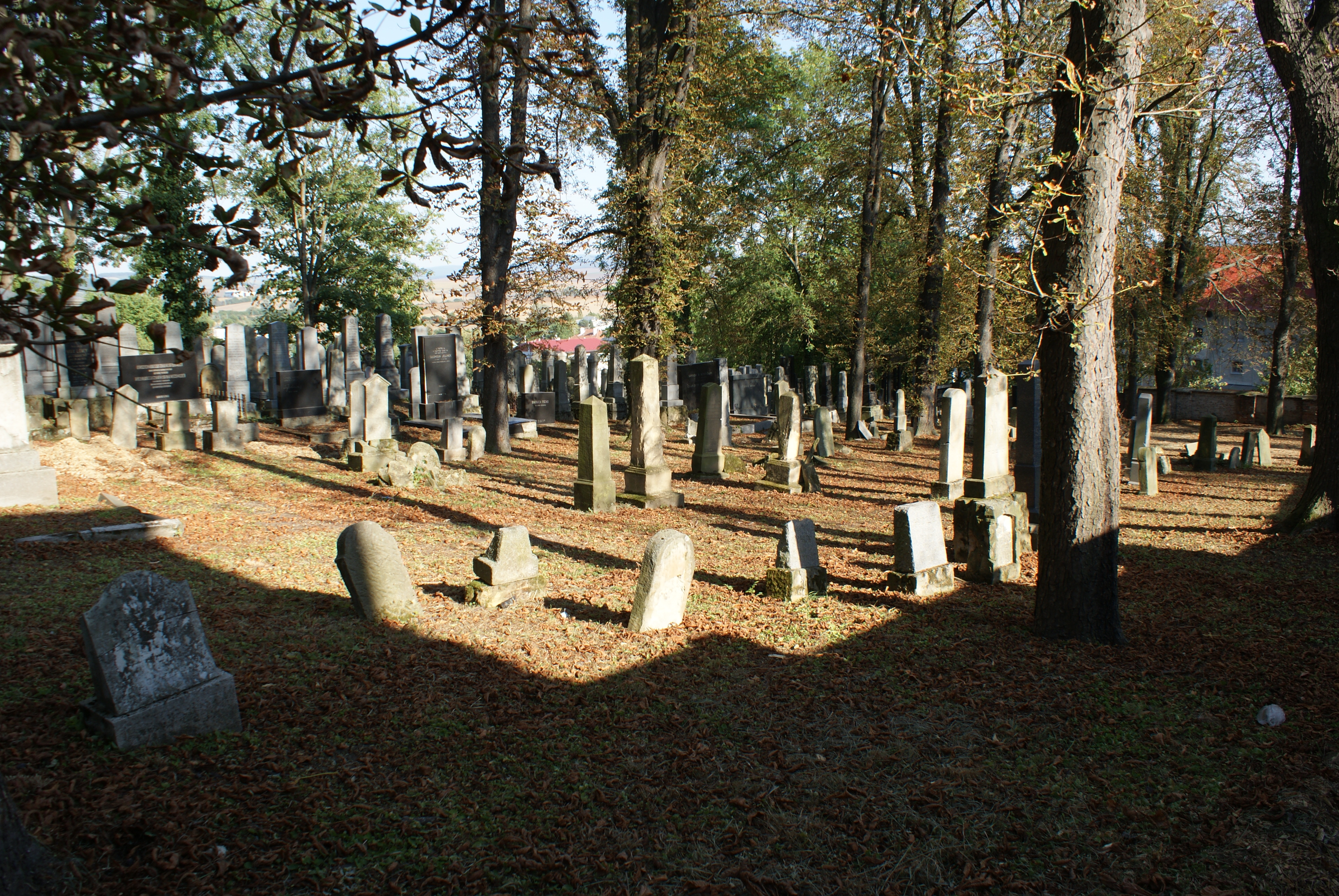 New Jewish cemetery in Uherský Brod, Uherské Hradiště district, Czech Republic.